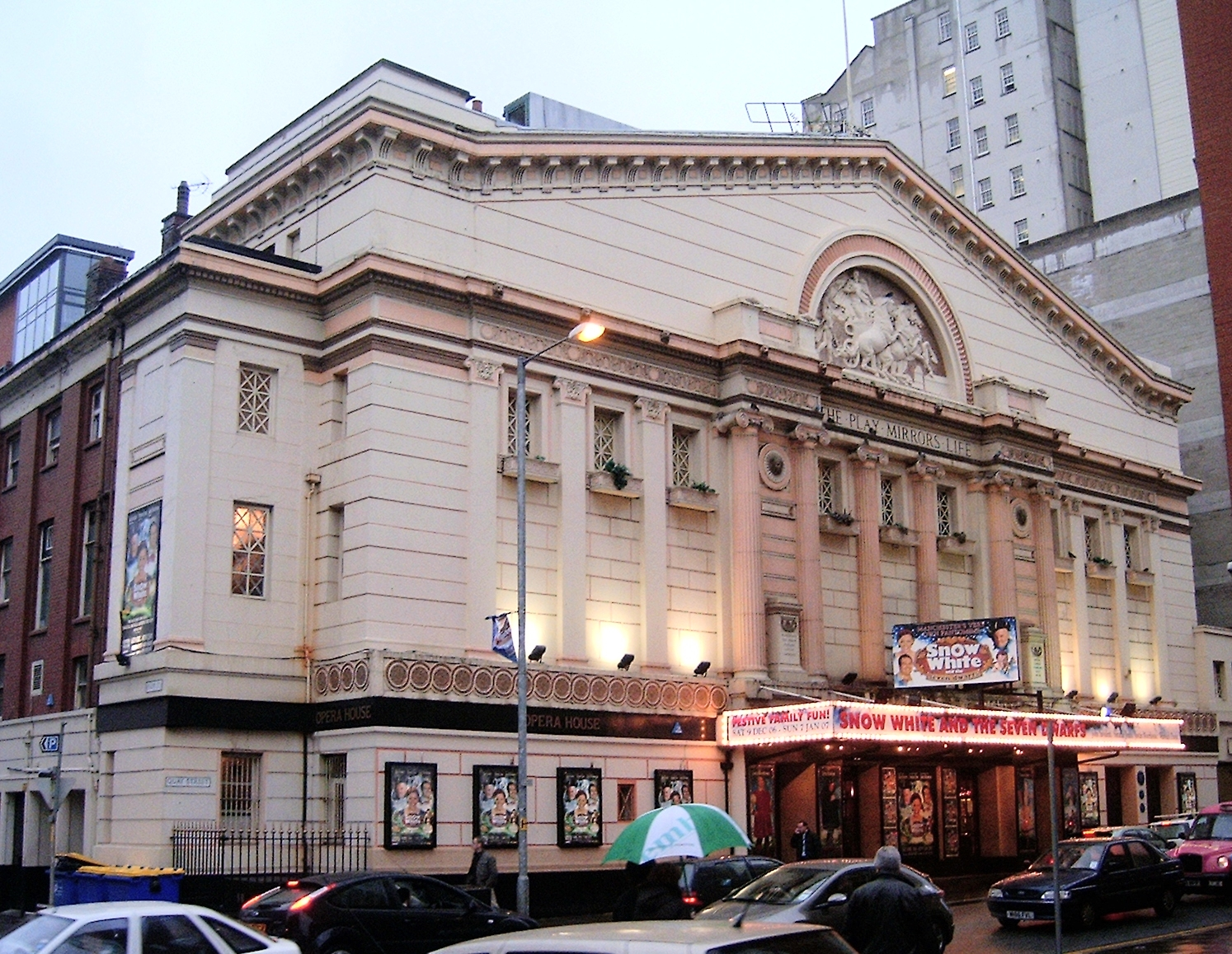 Manchester Opera House